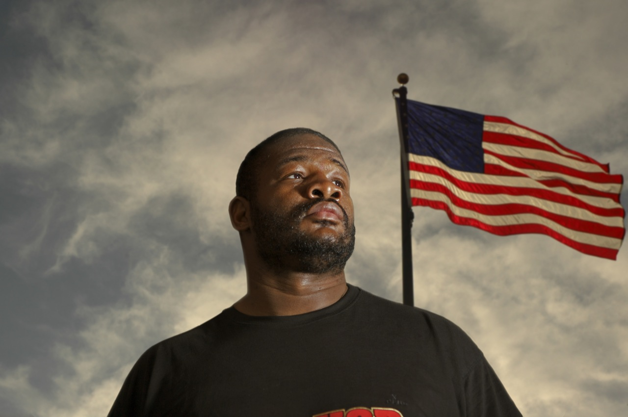 Former heavyweight champion Riddick "Big Daddy" Bowe 2008 in Kaiserslautern, Germany For Strobist: Subject shot in a gym with one 550EX at 1/16 through umbrella from low right. Fired with PW. Unfortunately the background was only mounted in post since there was no US flag nearby.